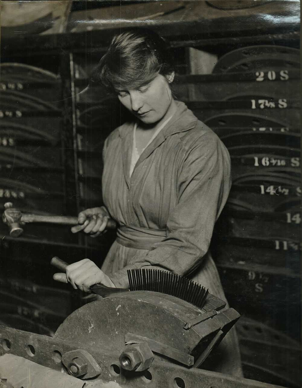 These images belong to the Parsons’ ‘Women Labourers’ photograph album, taken at Parsons’ Works on Shields Road during the First World War. (TWAM ref: 2402) The factory was founded by engineer Charles Parsons, best known for his invention of the steam turbine. In 1914, with the outbreak of war, Parsons’ daughter Rachel, one of the first three women to study engineering at Cambridge, replaced her brother on the board of directors, and took on a role in the training department of the Ministry of Munitions, supporting the increasing amount of women taking on jobs in industry to support the war effort. More information about Rachel Parsons and Parsons’ Works can be found in Great North Greats a guest post by David Wright. (copyright) We’re happy for you to share these digital images within the spirit of The Commons. Please cite 'Tyne & Wear Archives & Museums' when reusing. Certain restrictions on high quality reproductions and commercial use of the original physical version apply though; if you're unsure please